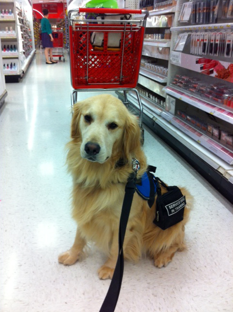 Service dog waits patiently while handler shops for food.